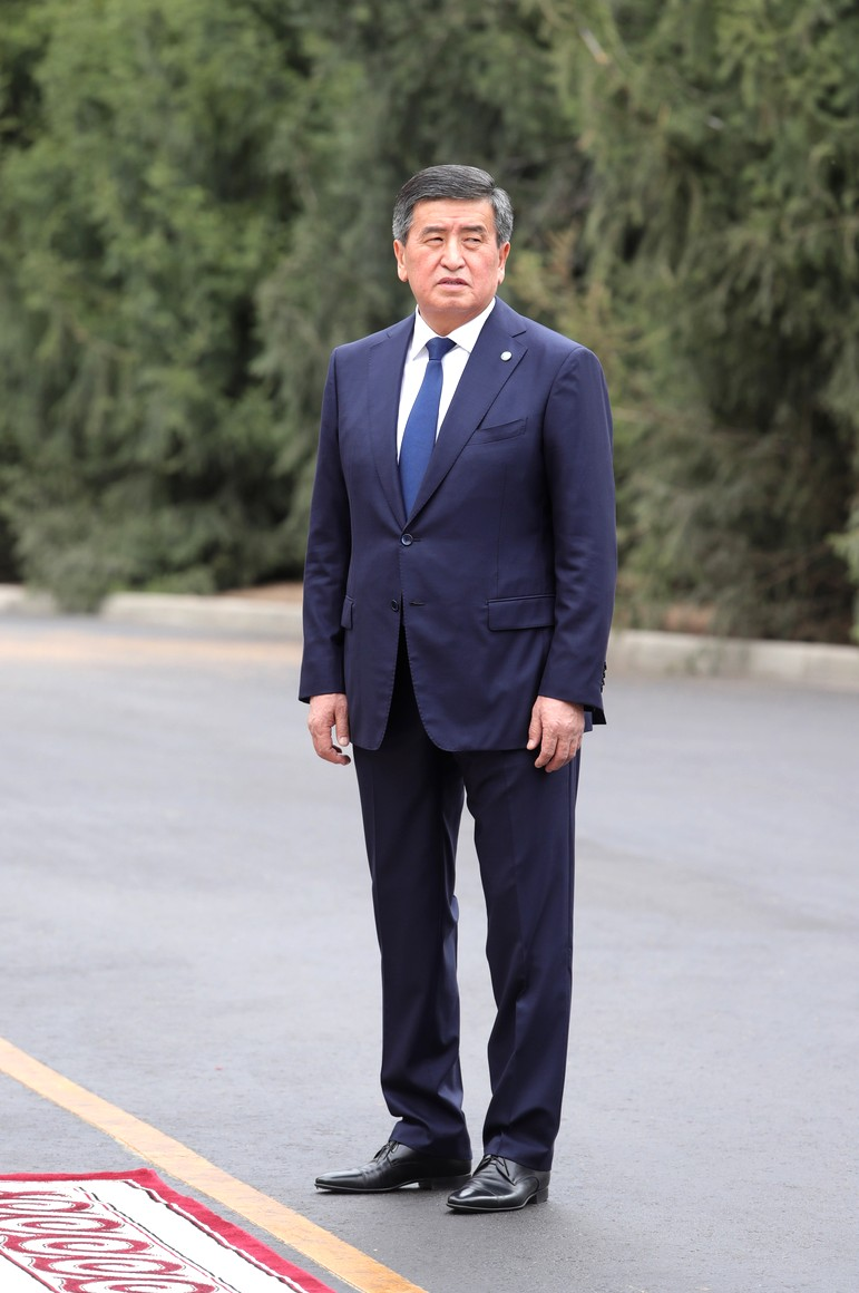 Vladimir Putin made a state visit to Kyrgyzstan at the invitation of President Sooronbay Jeenbekov.